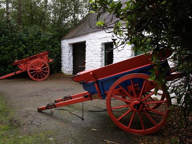 Ulster American Folk-park Carts pictured beside Hughes Cottage